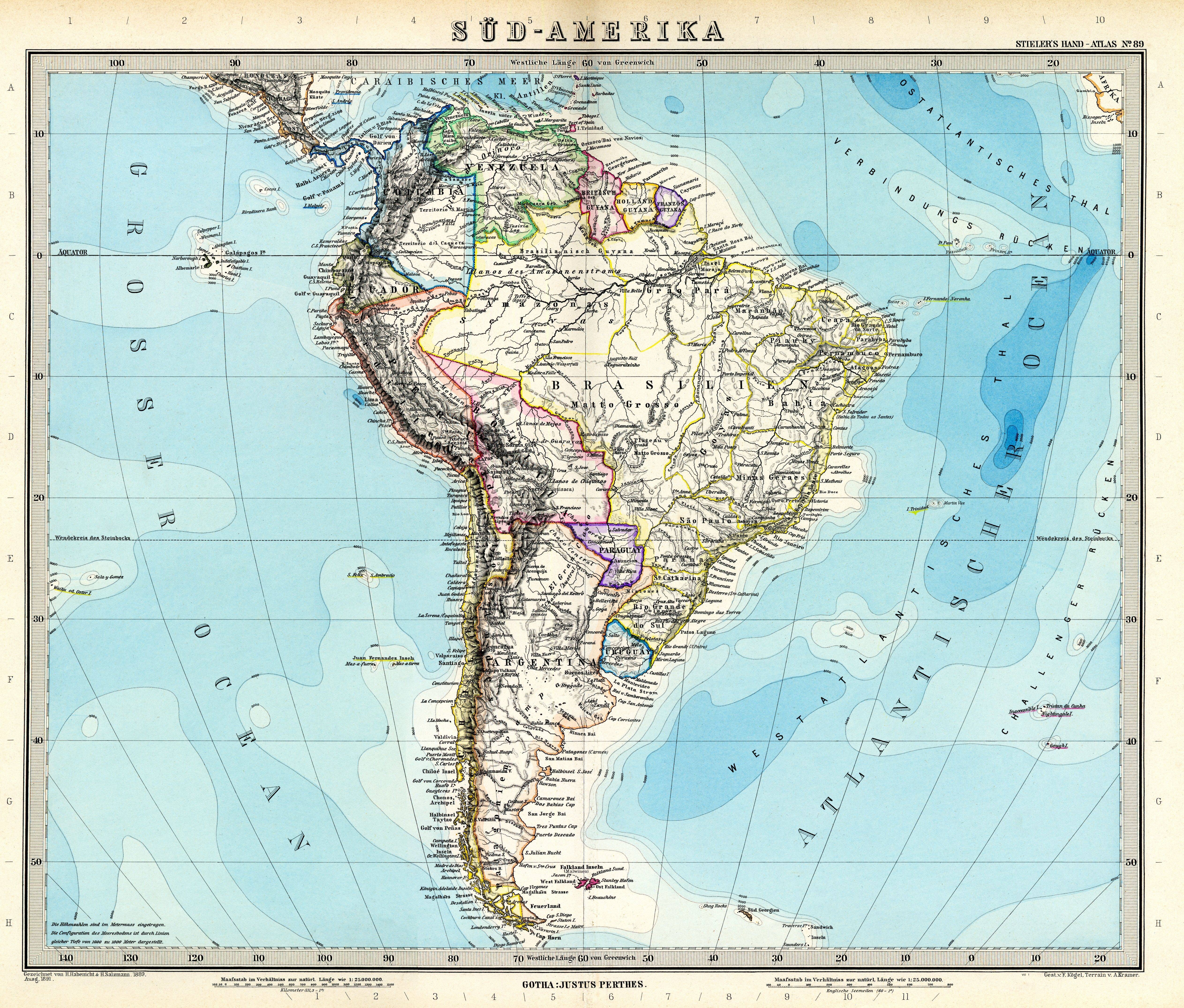 South America